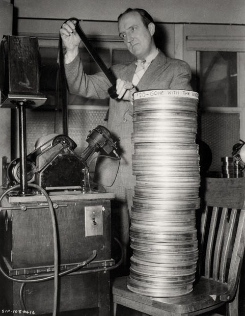 Hal C. Kern, supervising film editor of Gone with the Wind - publicity still